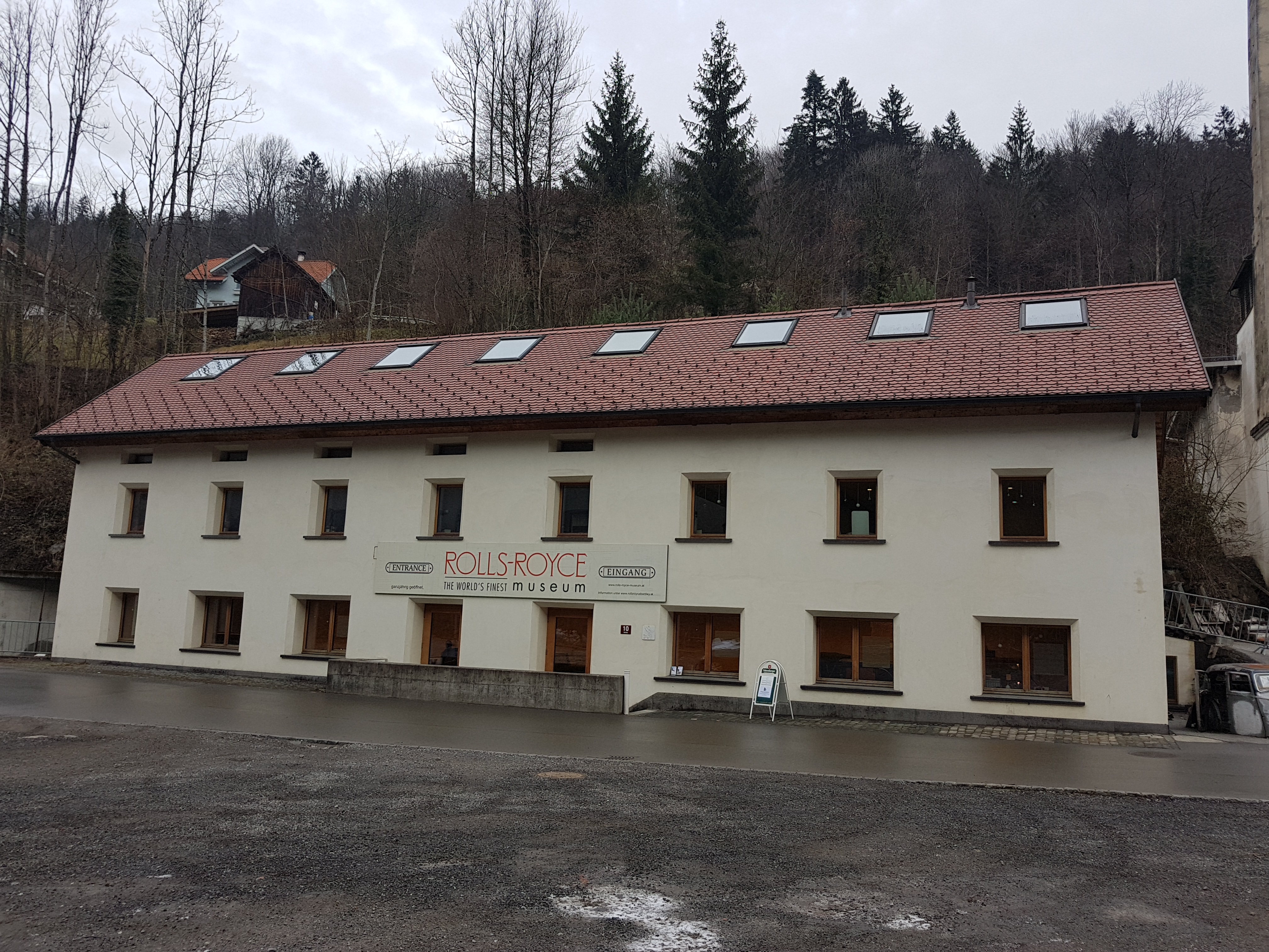 Dornbirn-The second Rolls-Royce Museum in the Gütle.